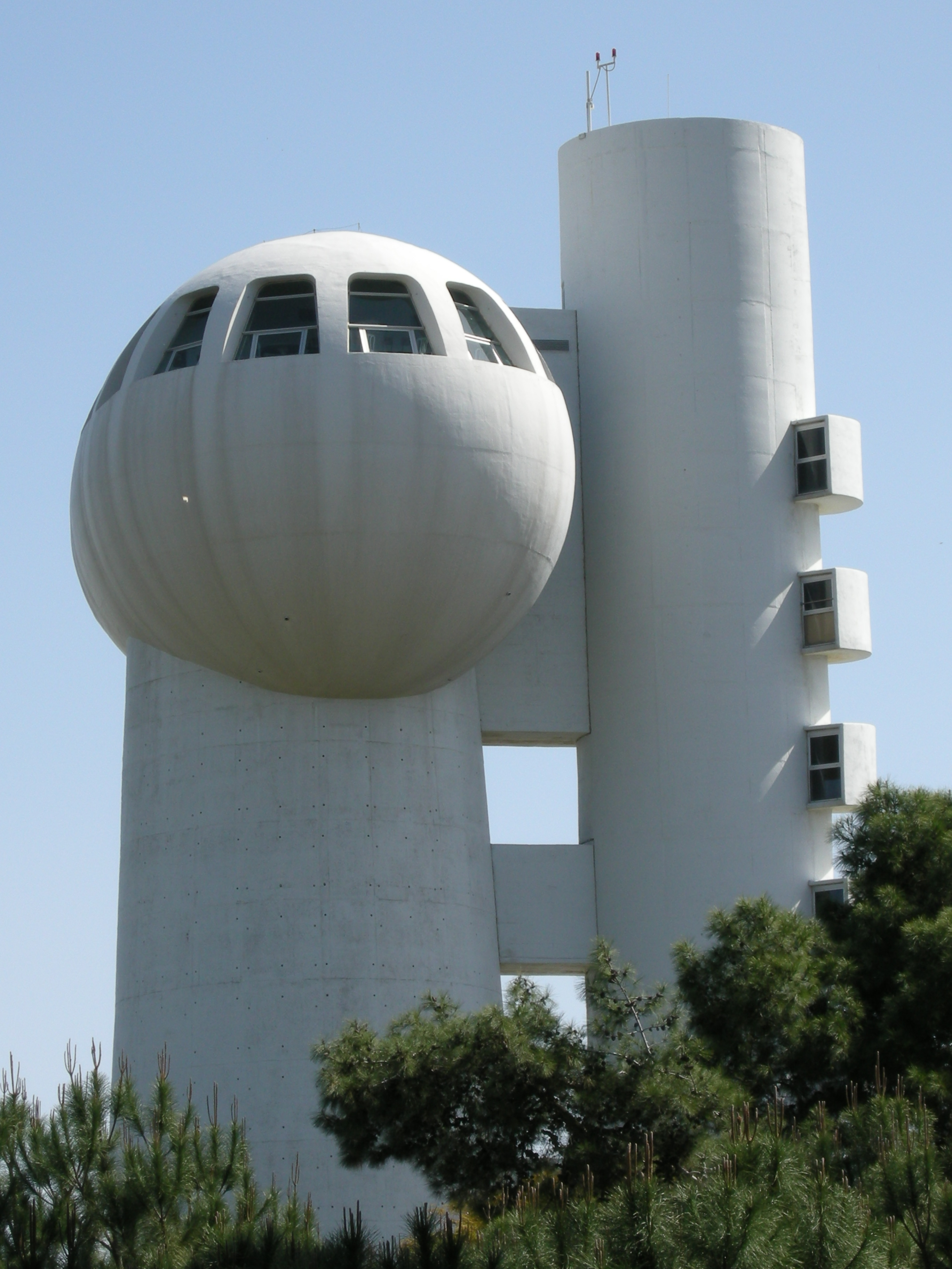 Weizmann Institute of Science photos taken during a wikipedia guided tour